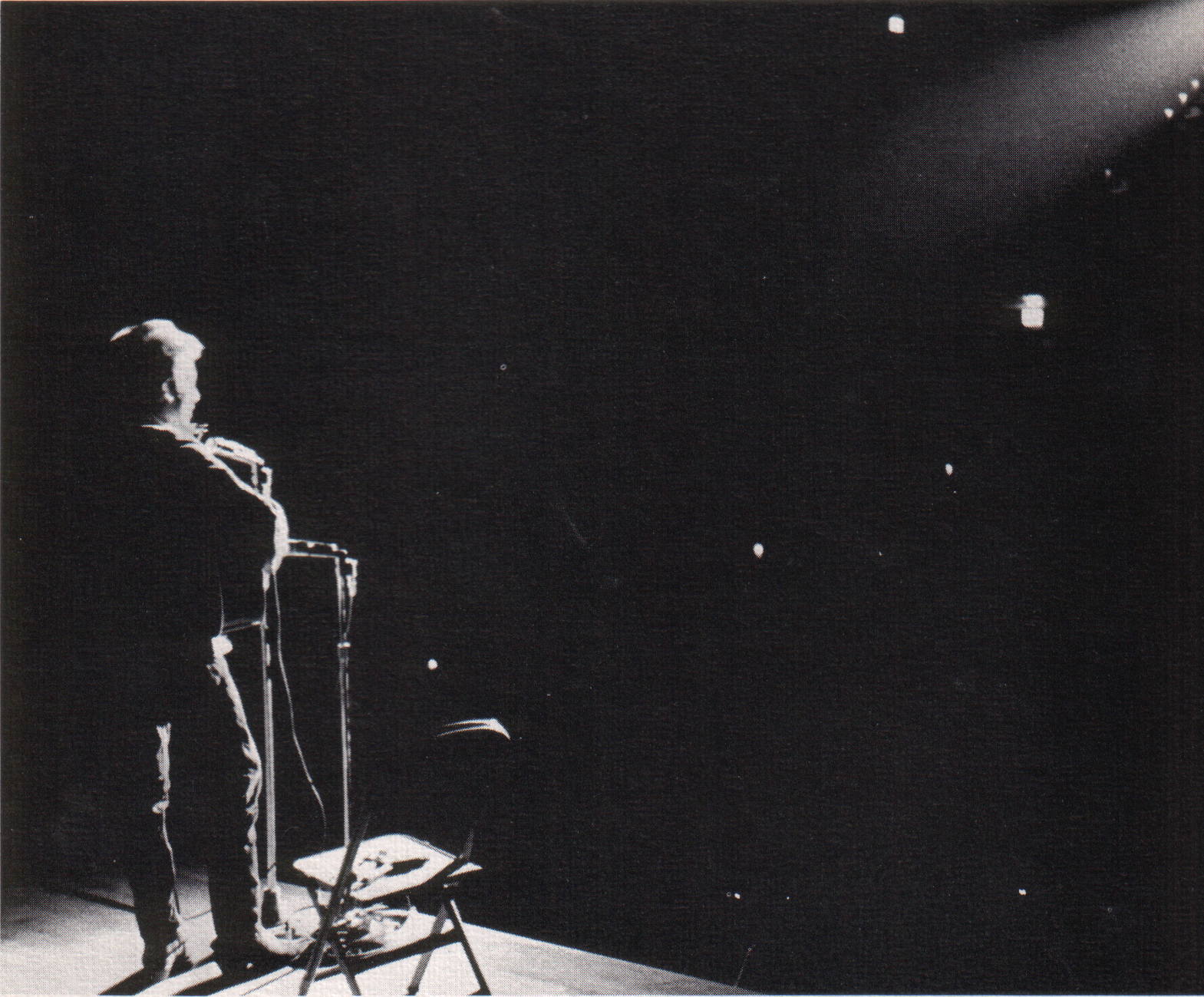 Bob Dylan performing at St. Lawrence University in New York.